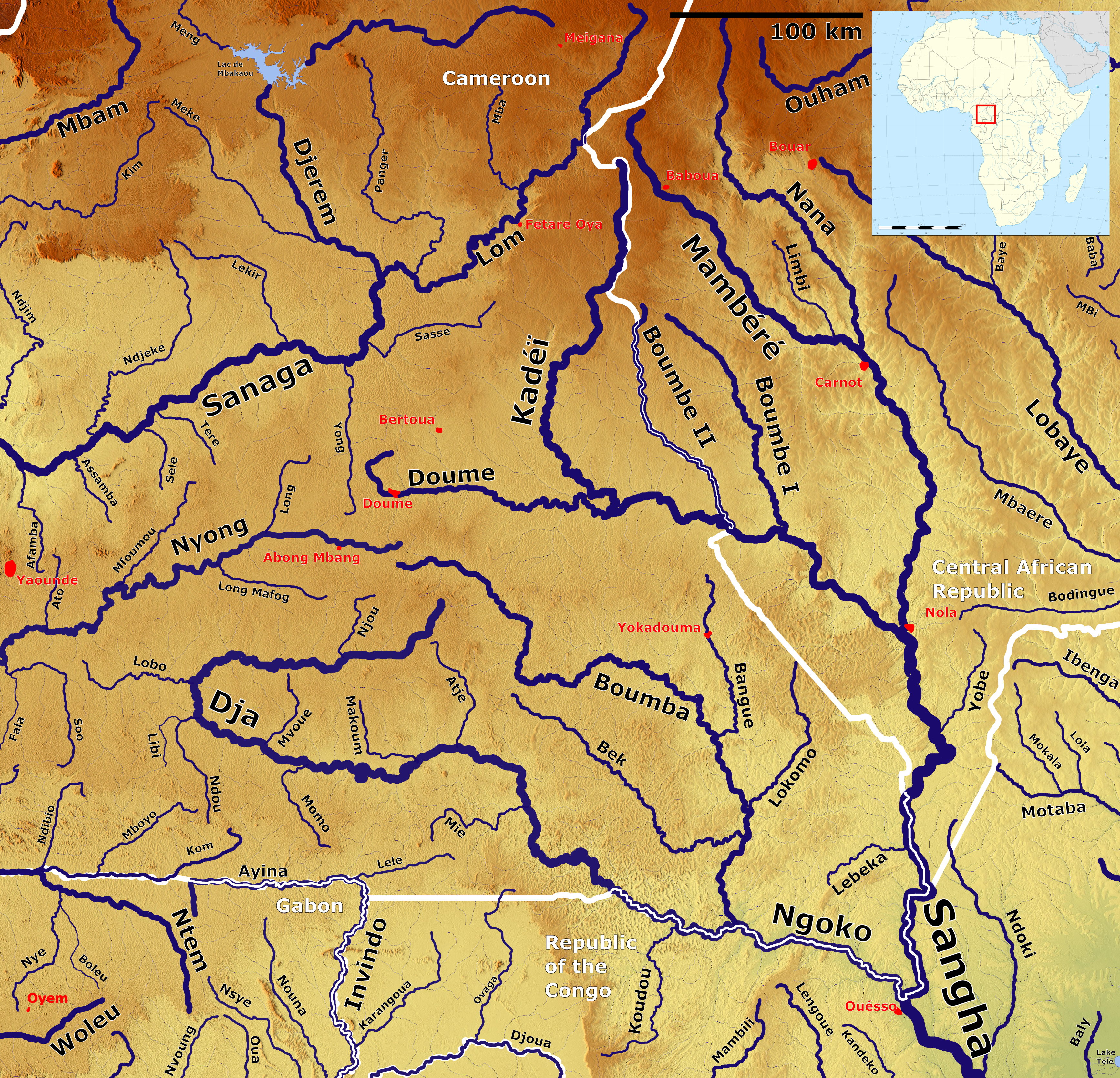 The northern Sangha catchment in Cameroon and CAR